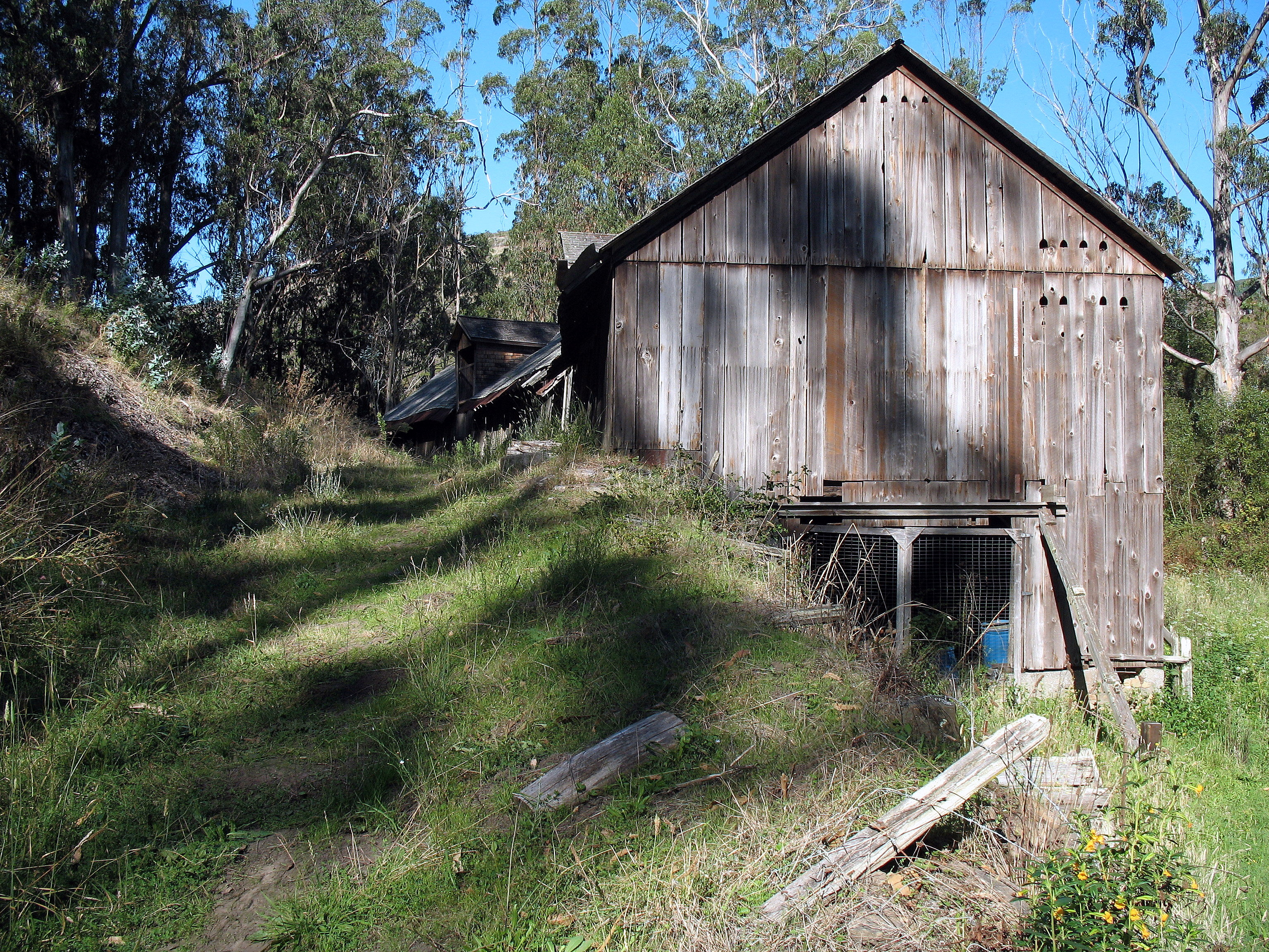 National Register of Historic Places listings in San Mateo County, California. Robert Mills Dairy Barn, Burleigh H. Murray Ranch State Park, Higgins Purissima Rd., Half Moon Bay, CA